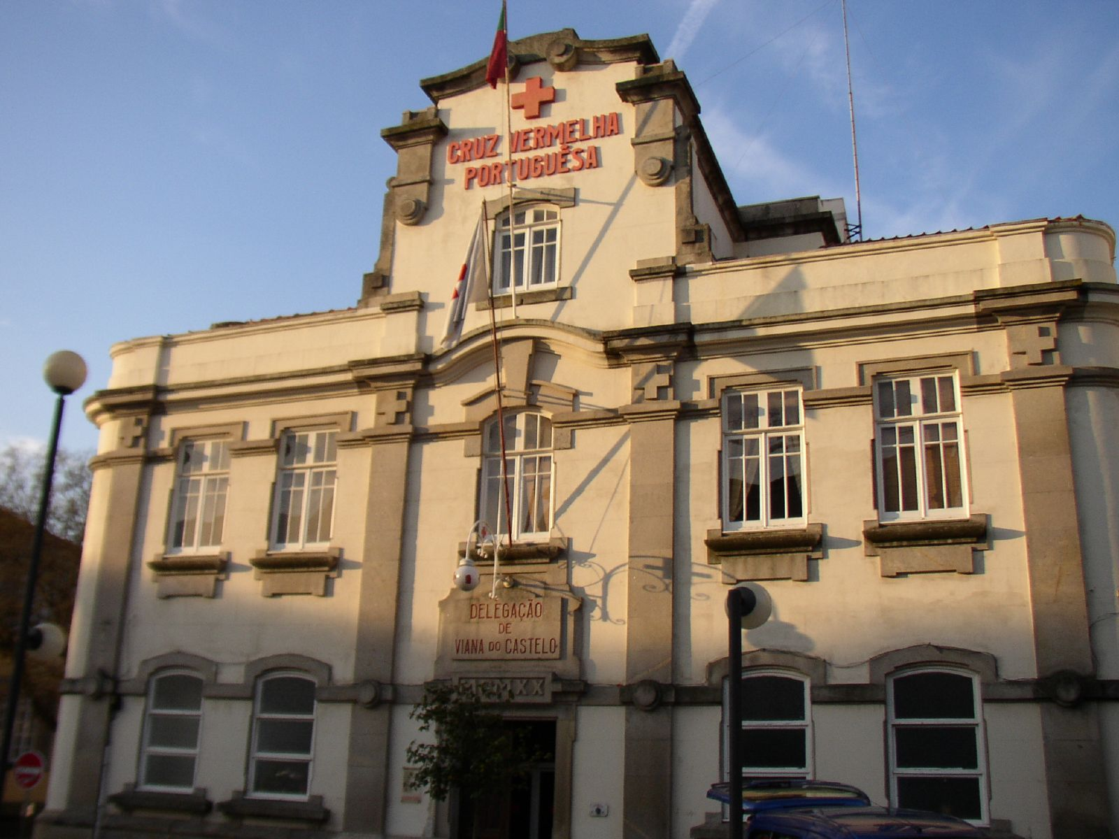 The regional office of the Portuguese Red Cross (Cruz Vermelha Portuguesa) in Viana do Castelo